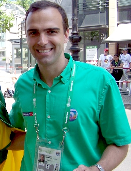 Brazilian jornalist and TV presenter Tadeu Schmidt